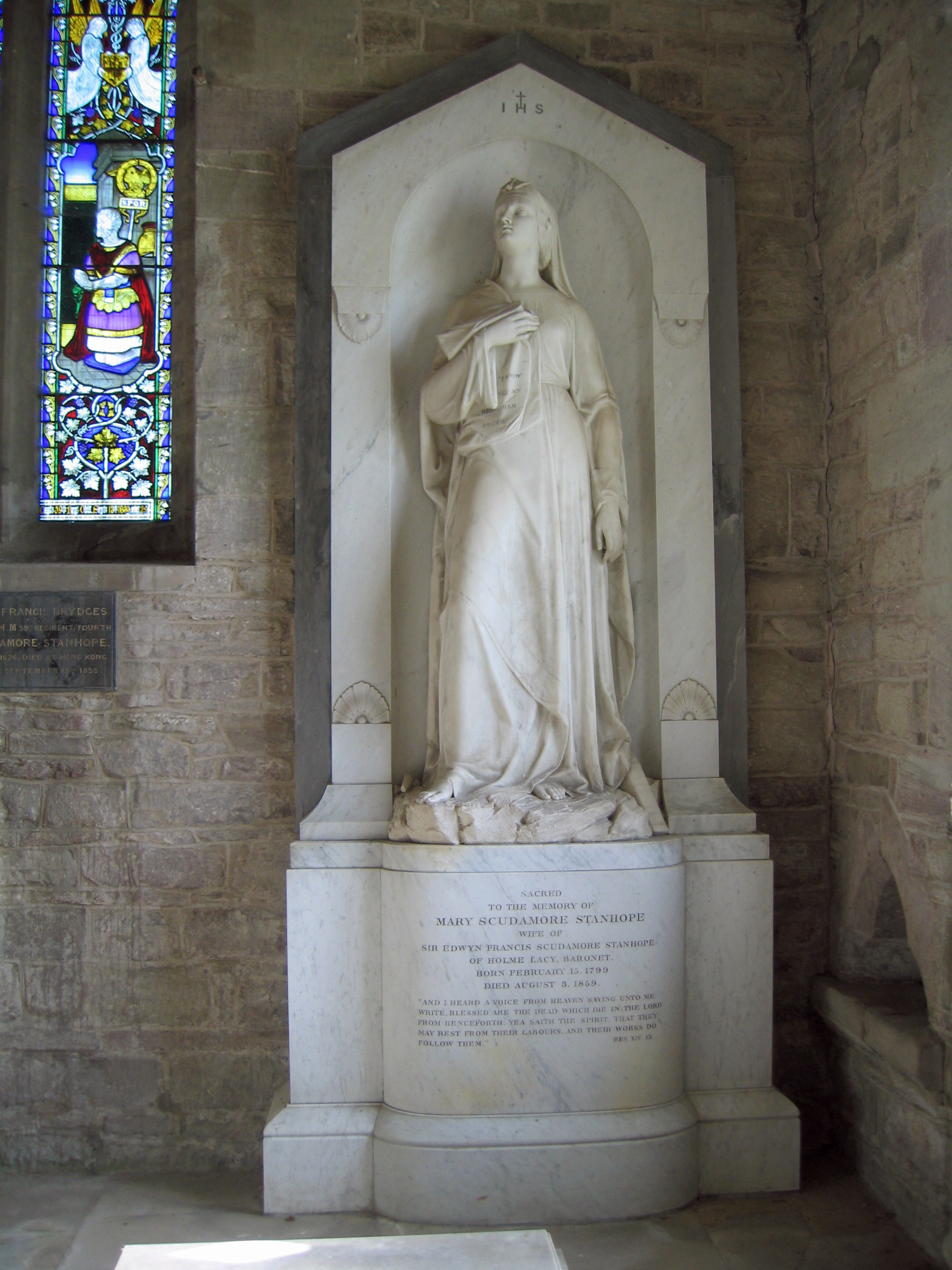 Photograph of the memorial to Mary Scudamore Stanhope in St Cuthbert's Church, Holme Lacy